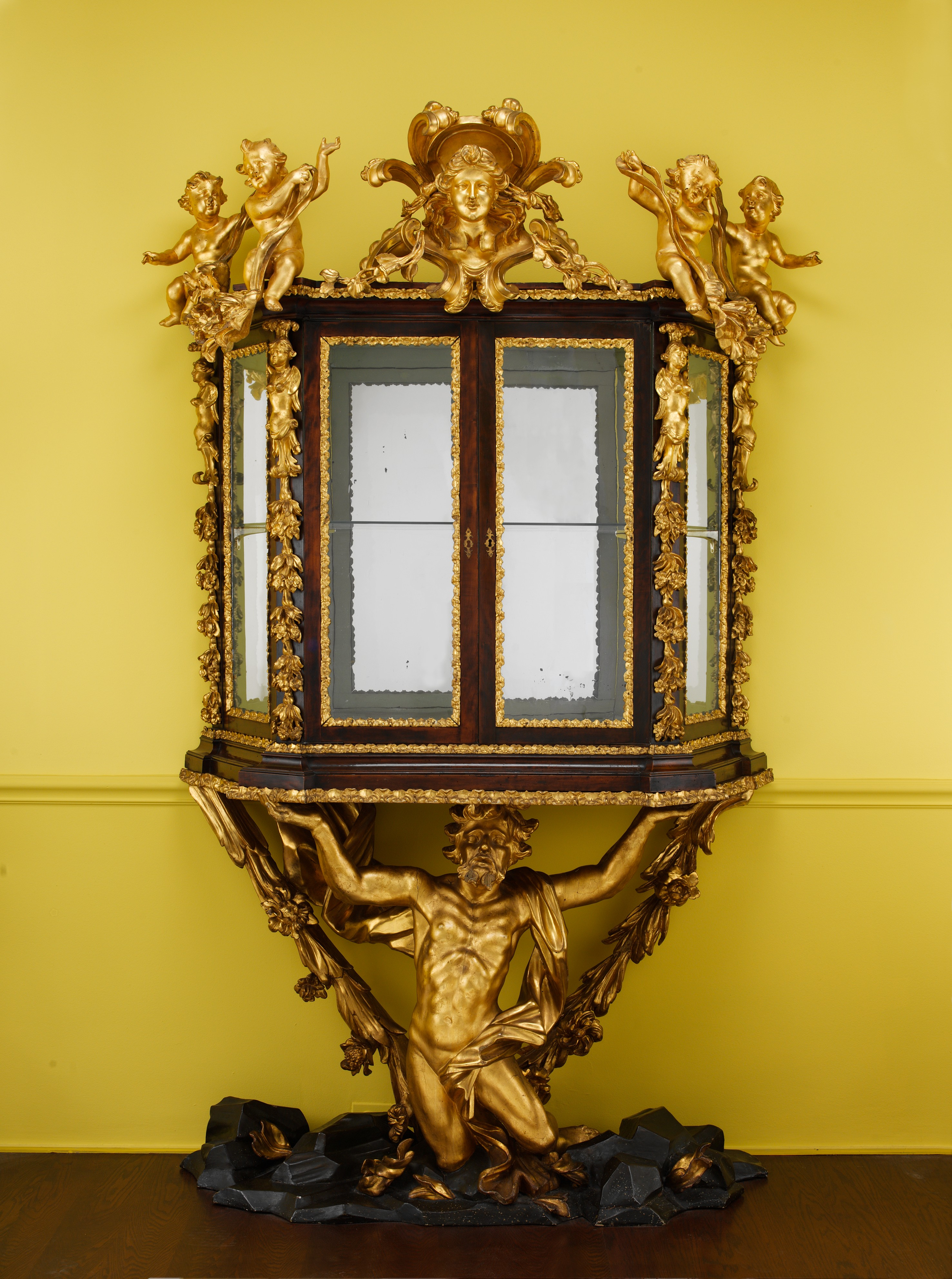 Italian, Rome; Showcase on stand; Woodwork-Furniture